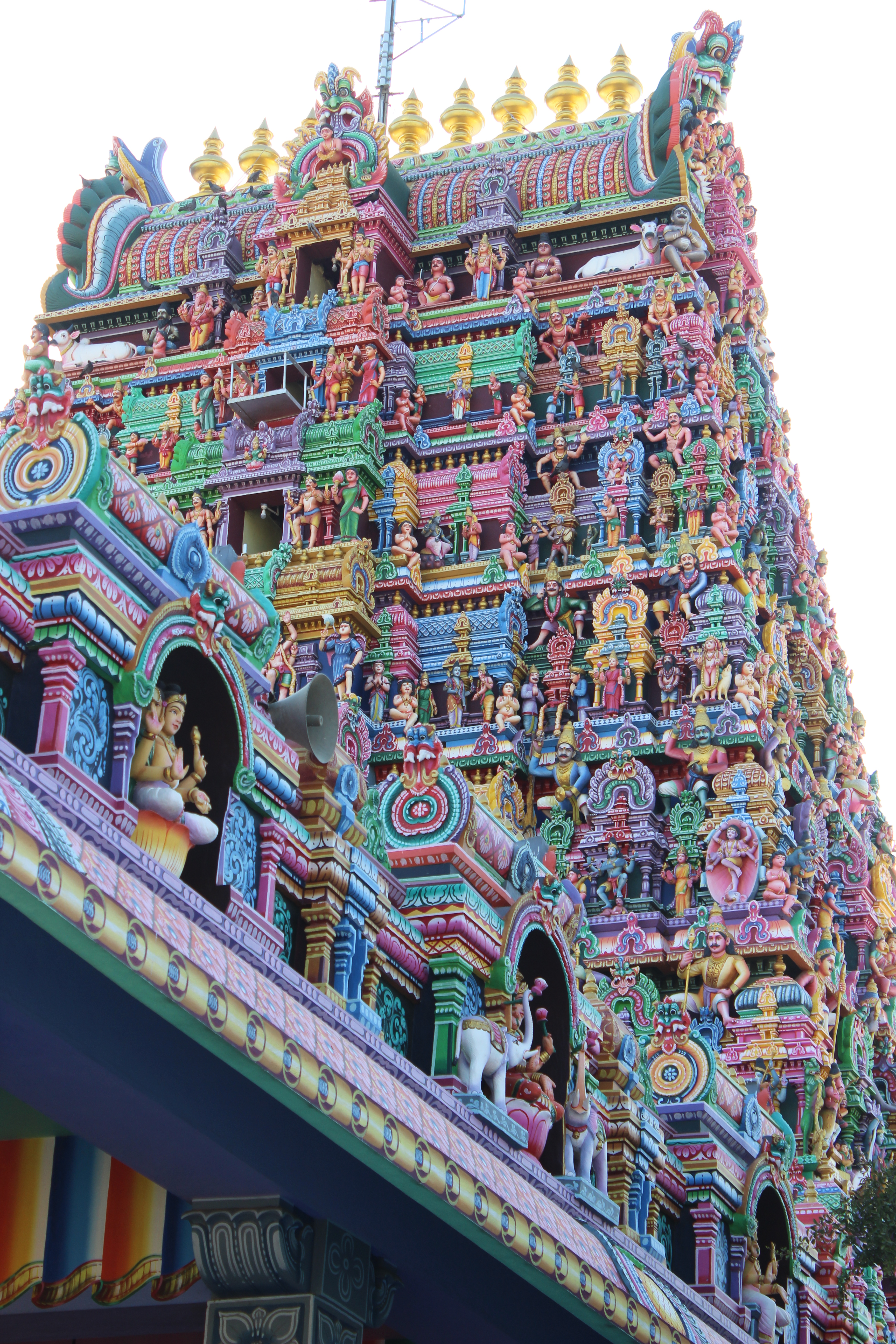 Pillaiyaarpatti Temple Gopuram